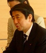 Shinzo Abe on Jan. 23, 2006